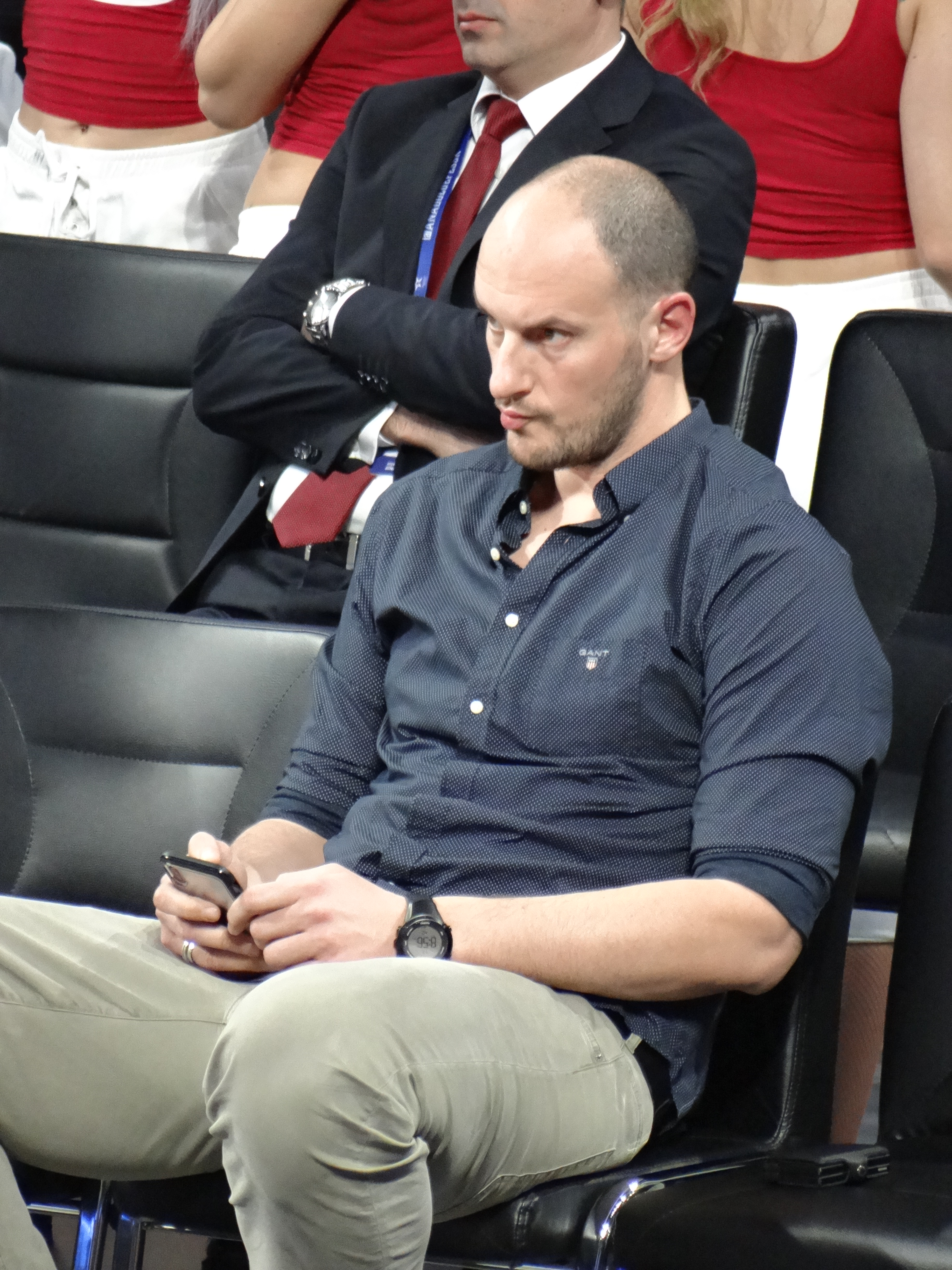 Ermal Kurtoğlu Anadolu Efes vs Valencia Basket EuroLeague 20180201